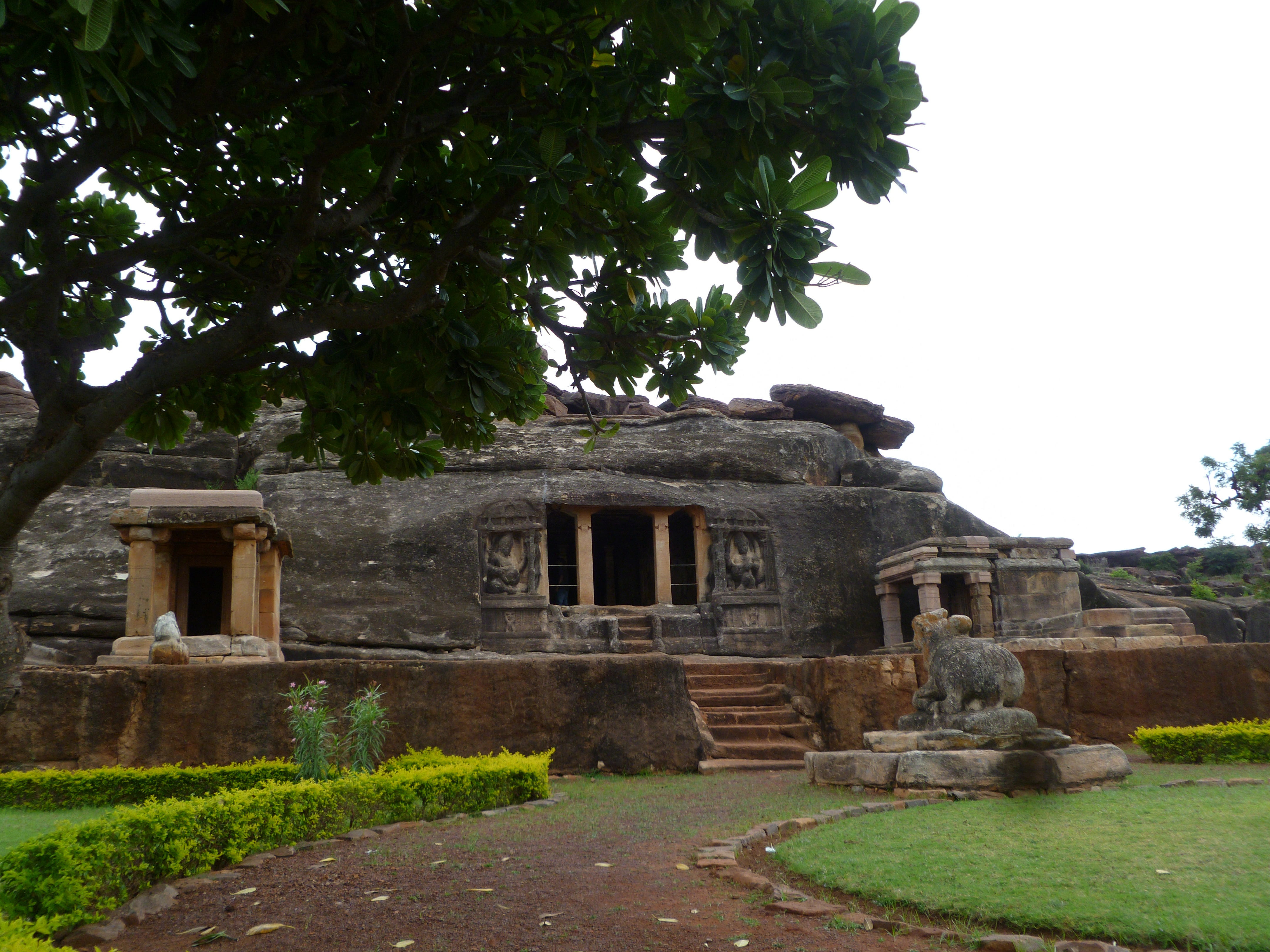 Ravana phadi cave temple. Aihole